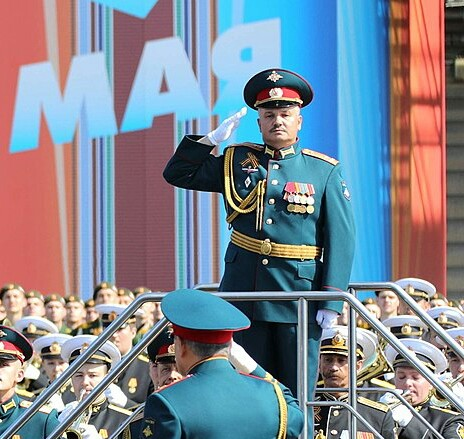 Colonel Timofey Mayakin on Red Square in 2018.